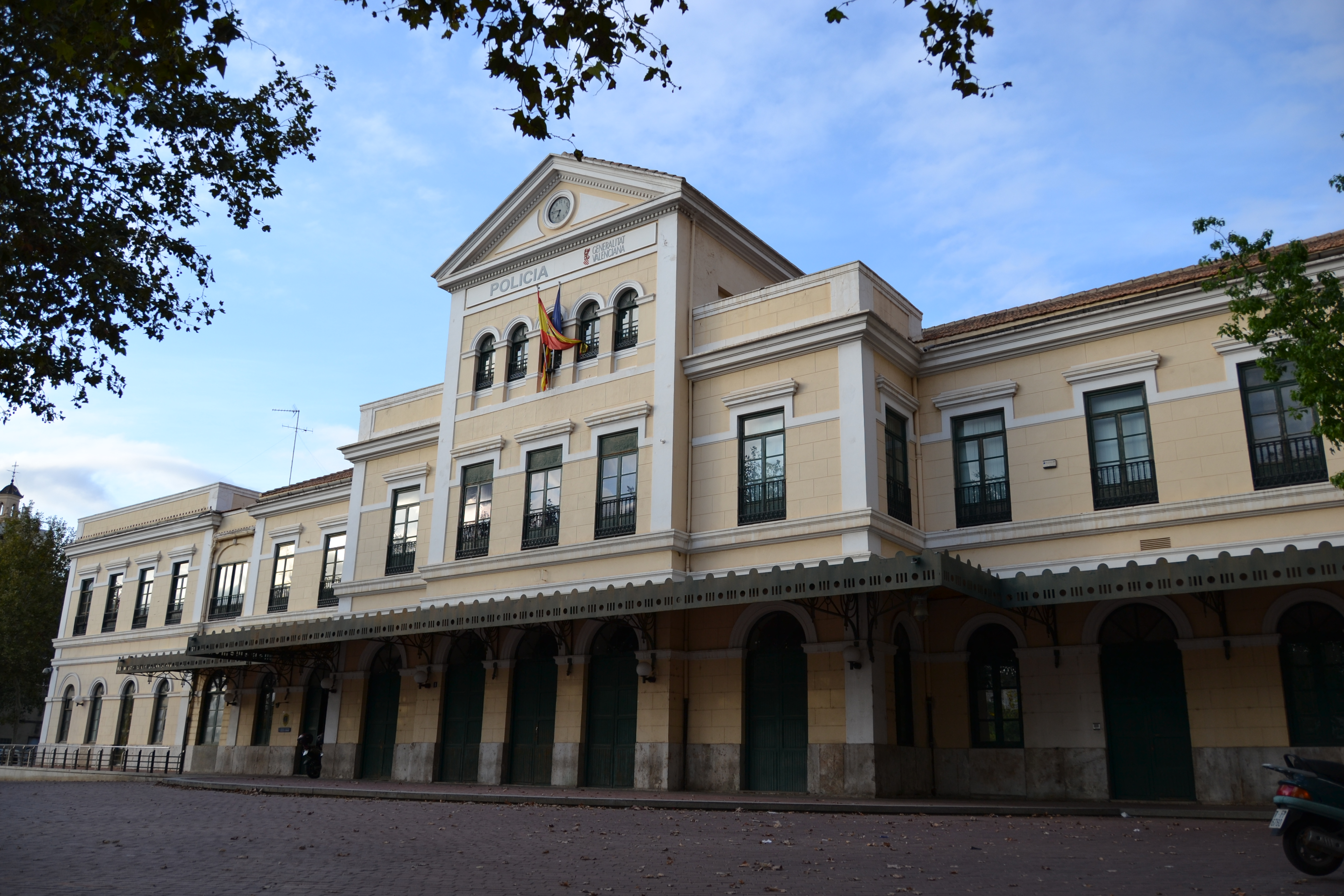 Old train station, now Police Department, called Pont de Fusta or Wooden Bridge.